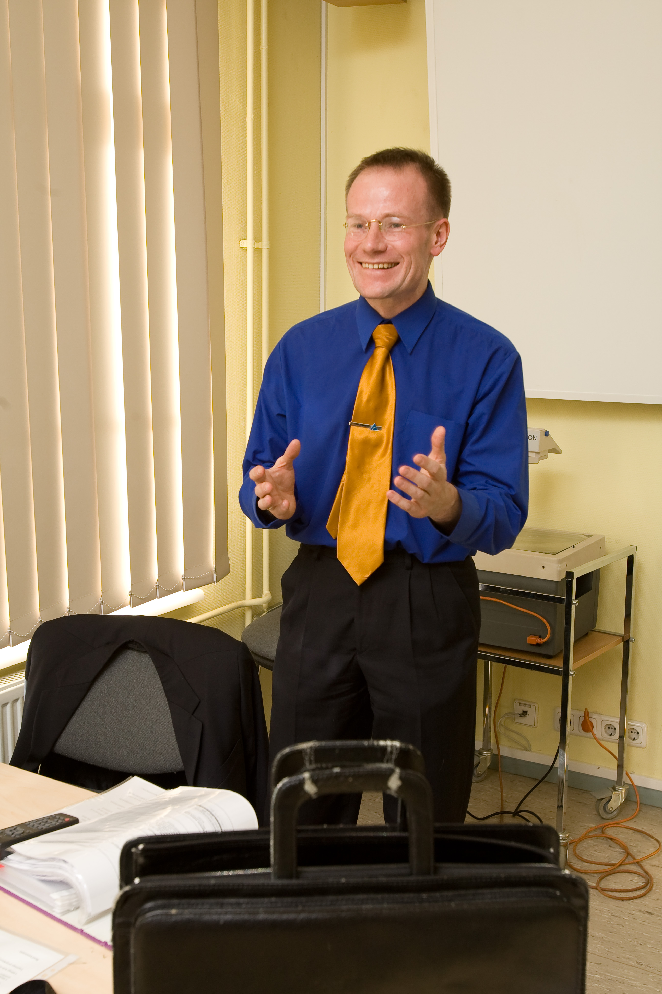 Toivo Aavik at the University of Tartu (March of 2008)